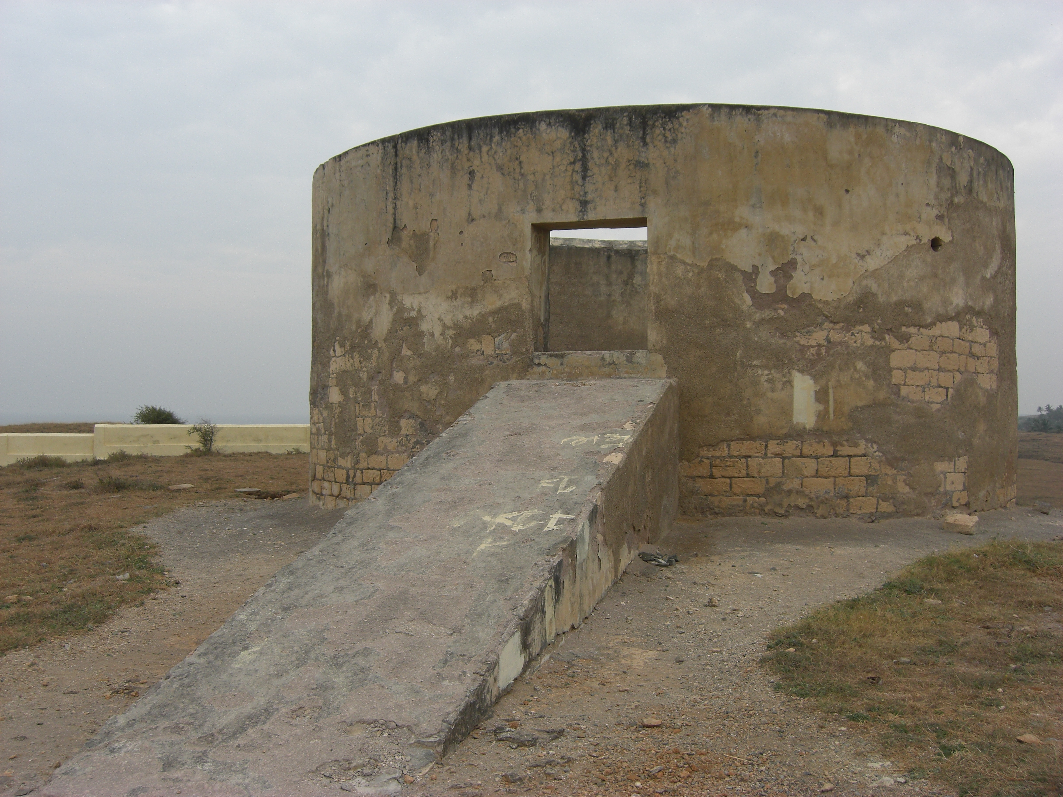 Tower of Silence in Diu